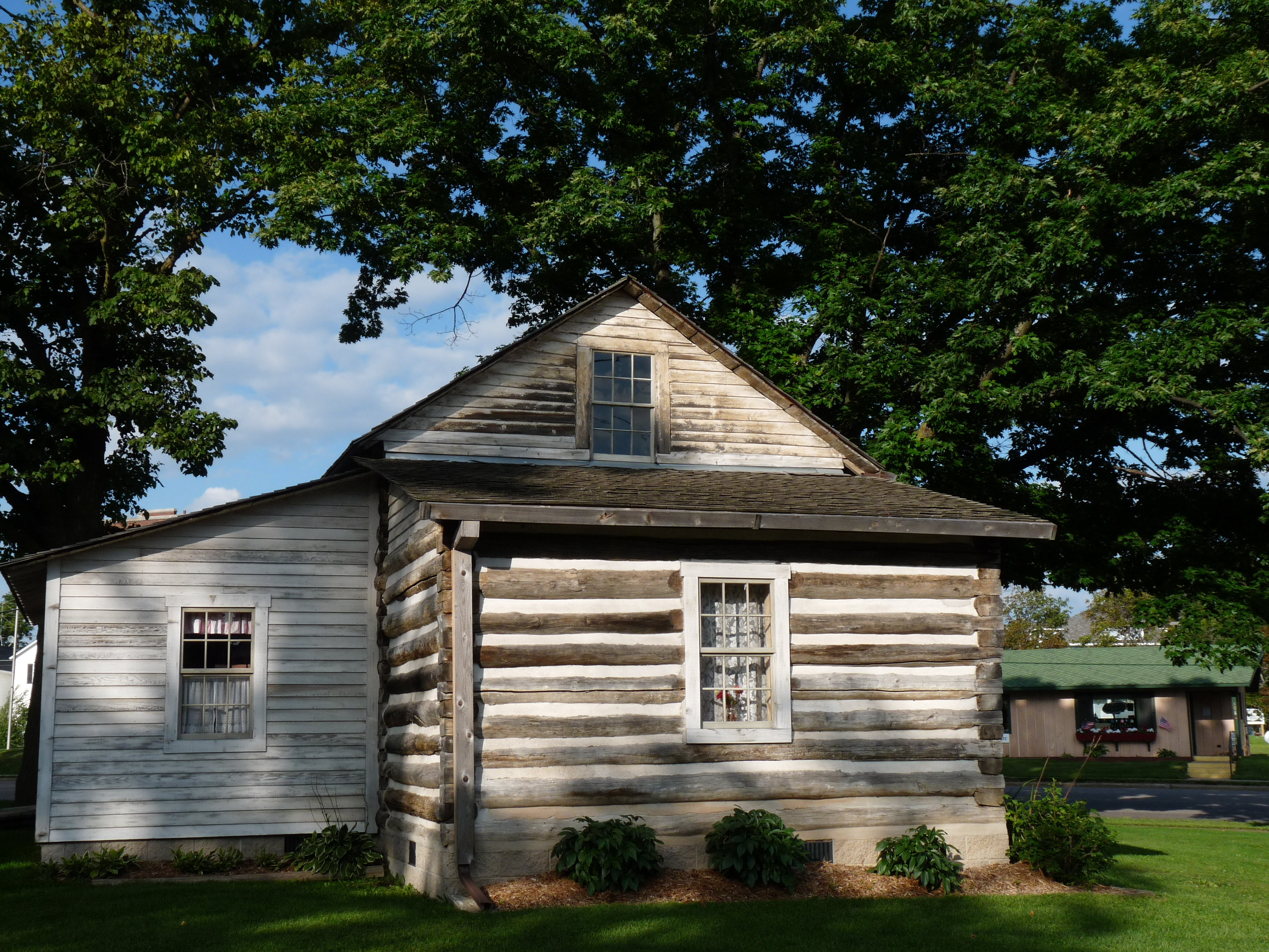 Deleglise cabin in Antigo, Wisconsin. This was the first house in Antigo, built in 1877. It's on the National Register of Historic Places.